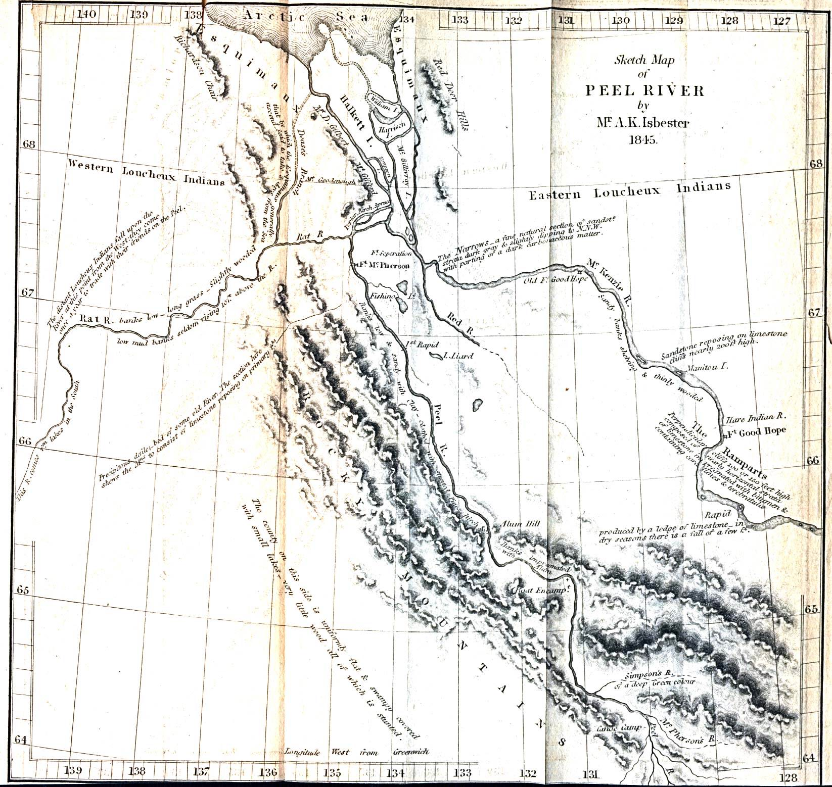 "Sketch Map of Peel River by Mr. A.K. Isbester, 1845" From The Journal of the Royal Geographical Society.